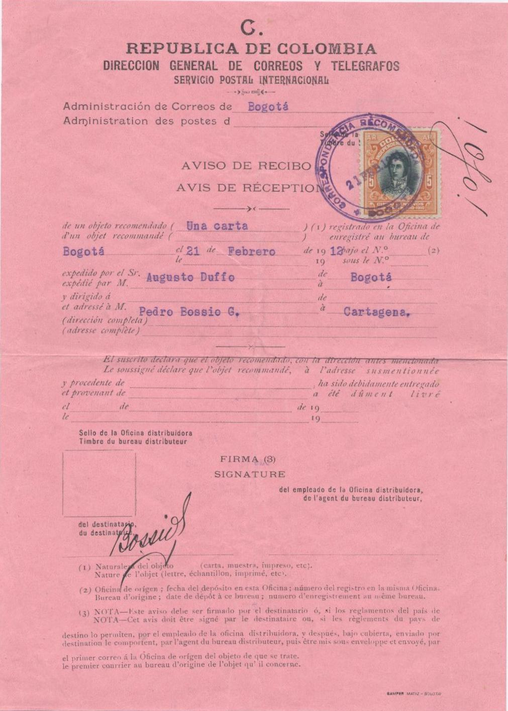 Colombia Avis de Reception form 1912.